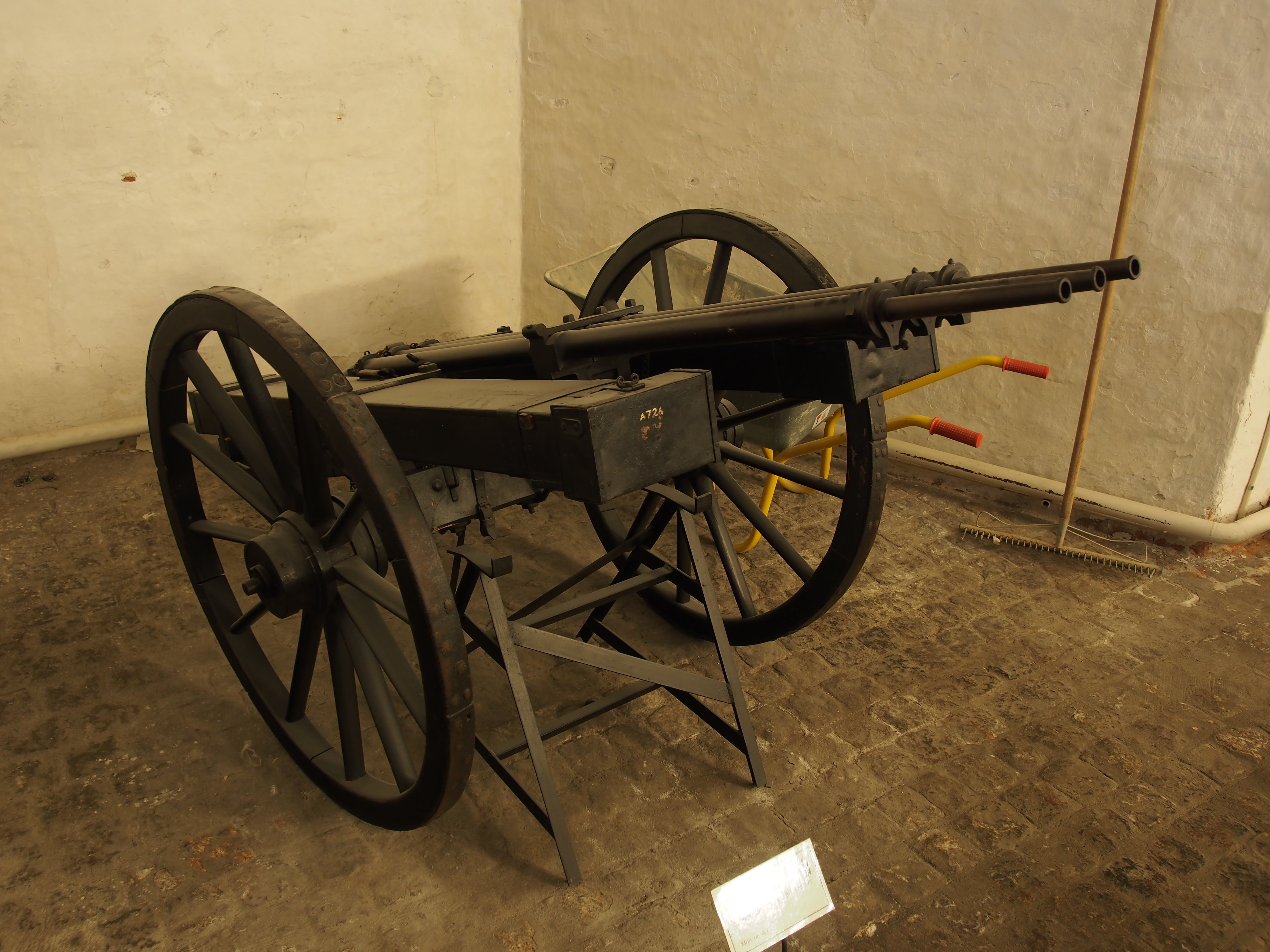 Photographed at the Royal Danish Arsenal Museum (Copenhagen)